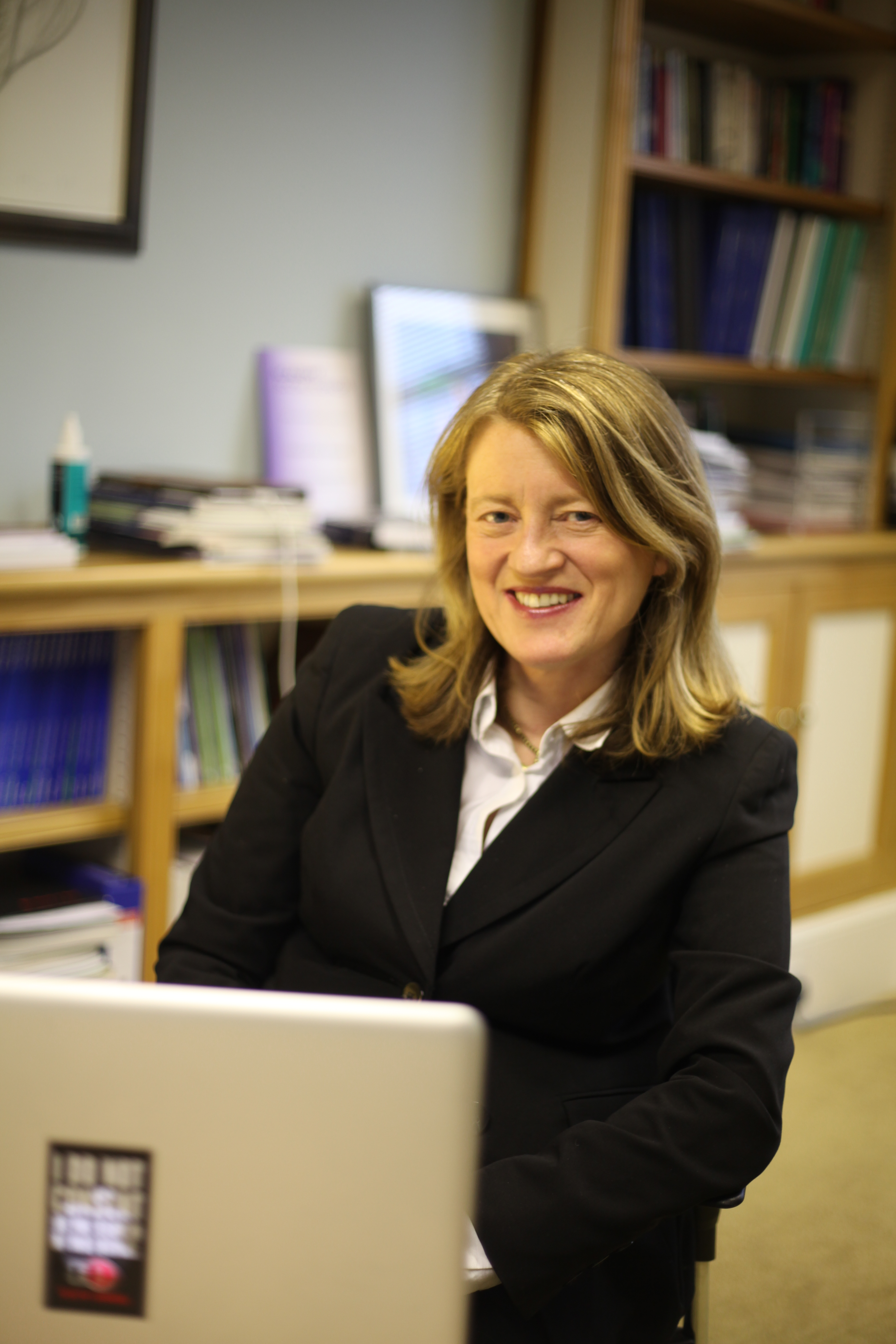 Portrait of the political scientist Professor Helen Margetts, Director of the Oxford Internet Institute